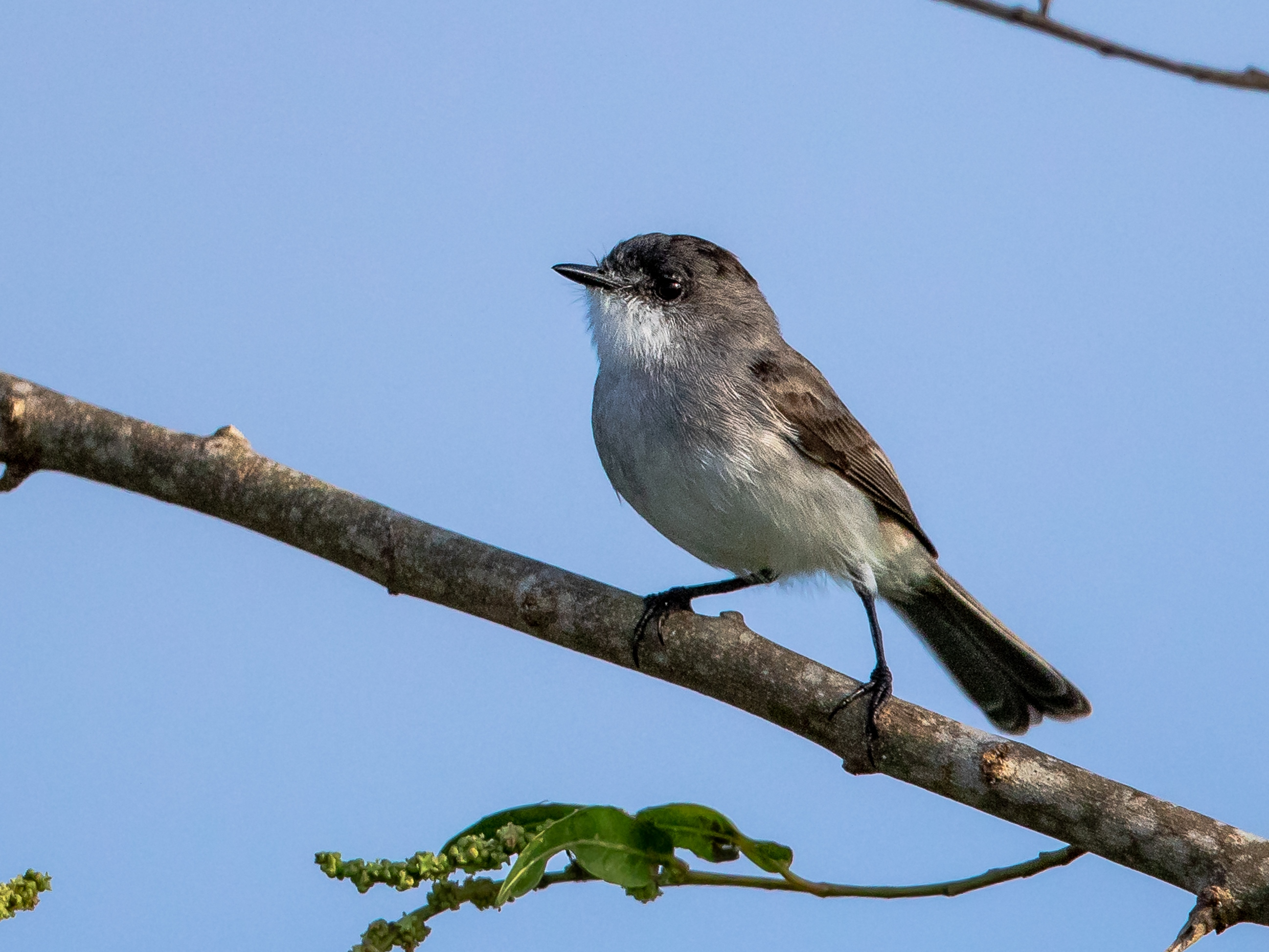 River tyrannulet; Marchantaria Island, Iranduba, Amazonas, Brazil